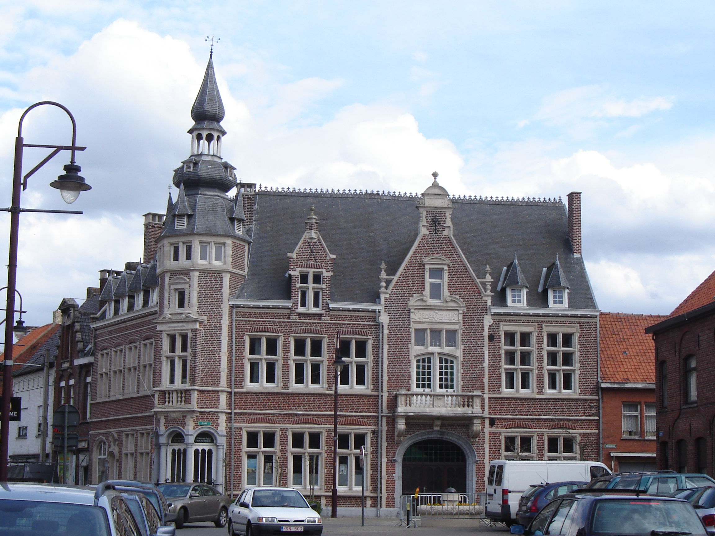 Former town hall of Dadizele. Dadizele, Moorslede, West Flanders, Belgium